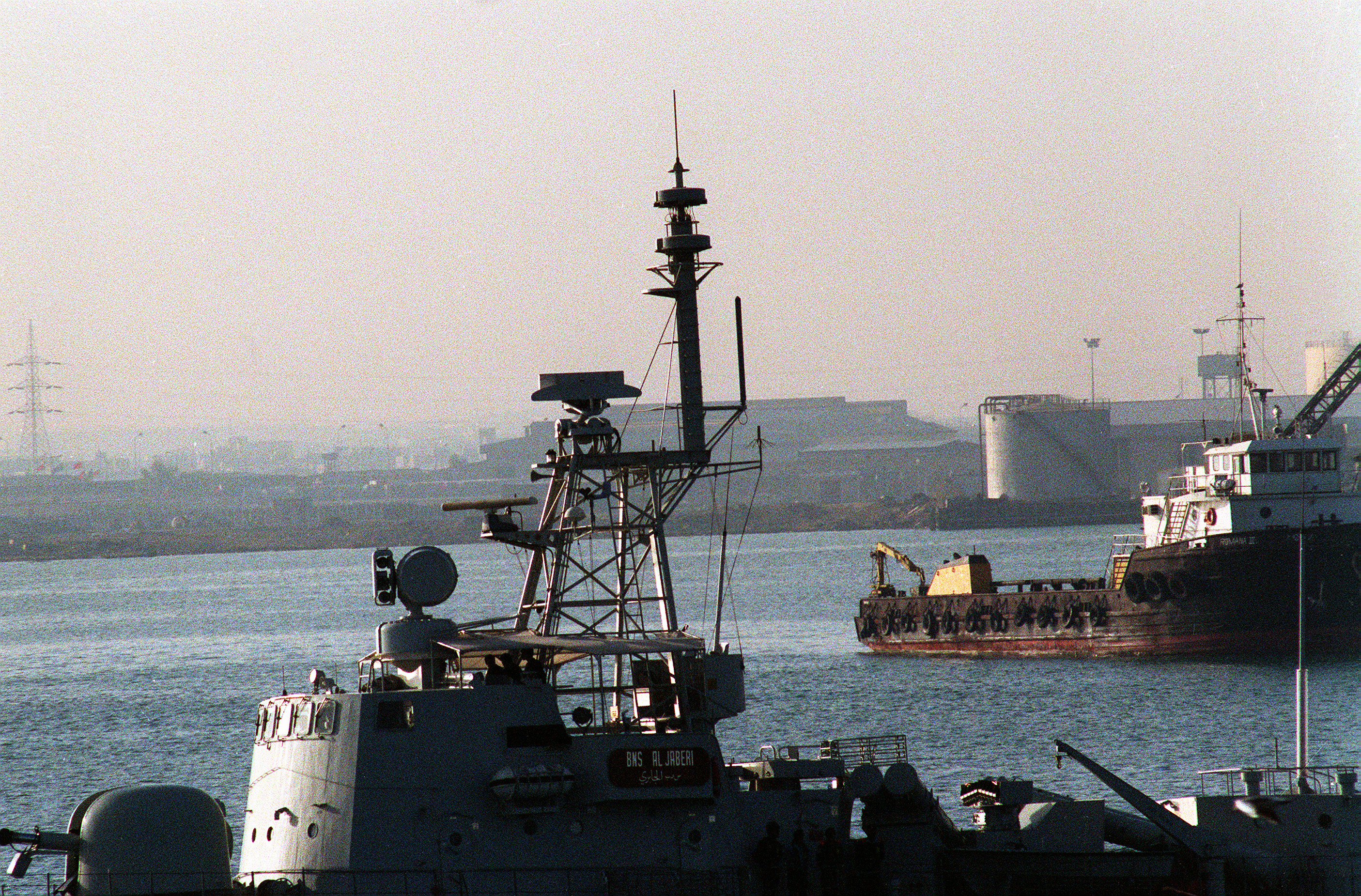 The Bahraini fast attack craft BNS A1 Jabiri (FPB-21) patrols in the Persian Gulf during Operation Desert Shield.